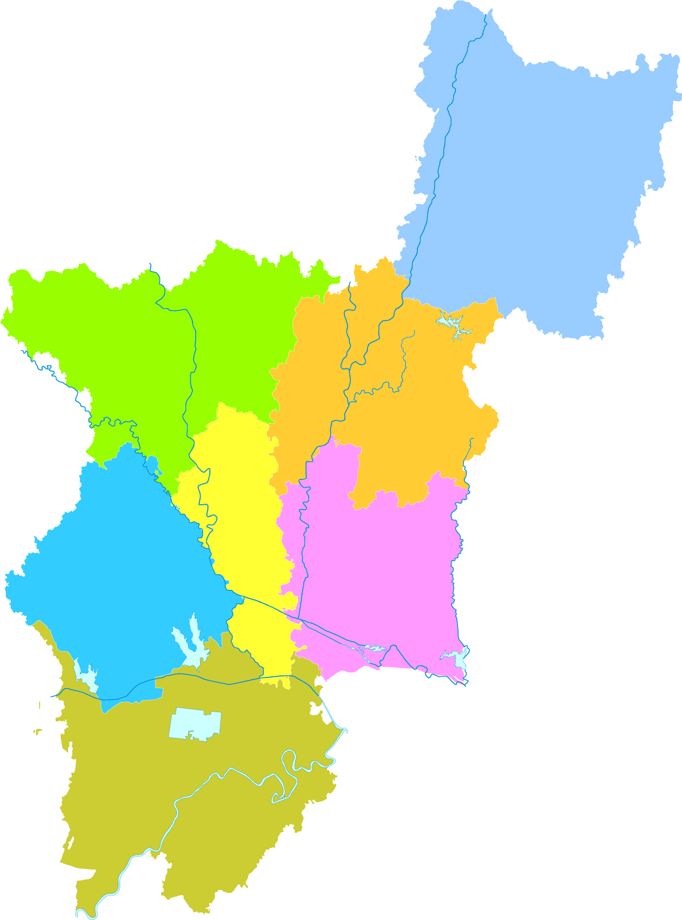 administrative division of Xiaogan City, Hubei, China